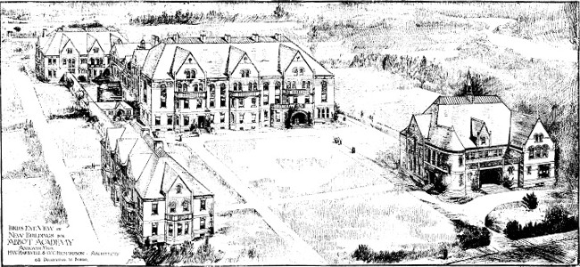 The original plan in 1829 was for four buildings for Abbot Academy, with the large Draper Hall in the center. The school's golden years of growth and fundraising happened after 1853 according to one view.